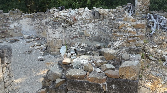 Church entrance and apse view